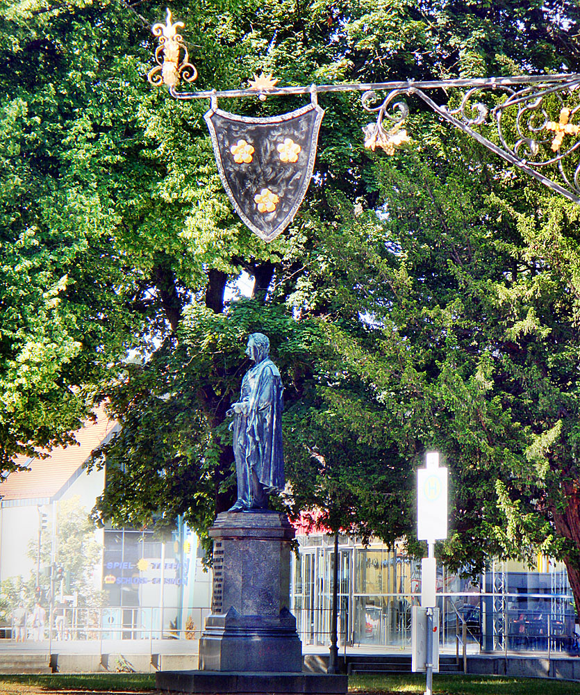 Denkmal Graf von Platen in Ansbach, Schlossplatz